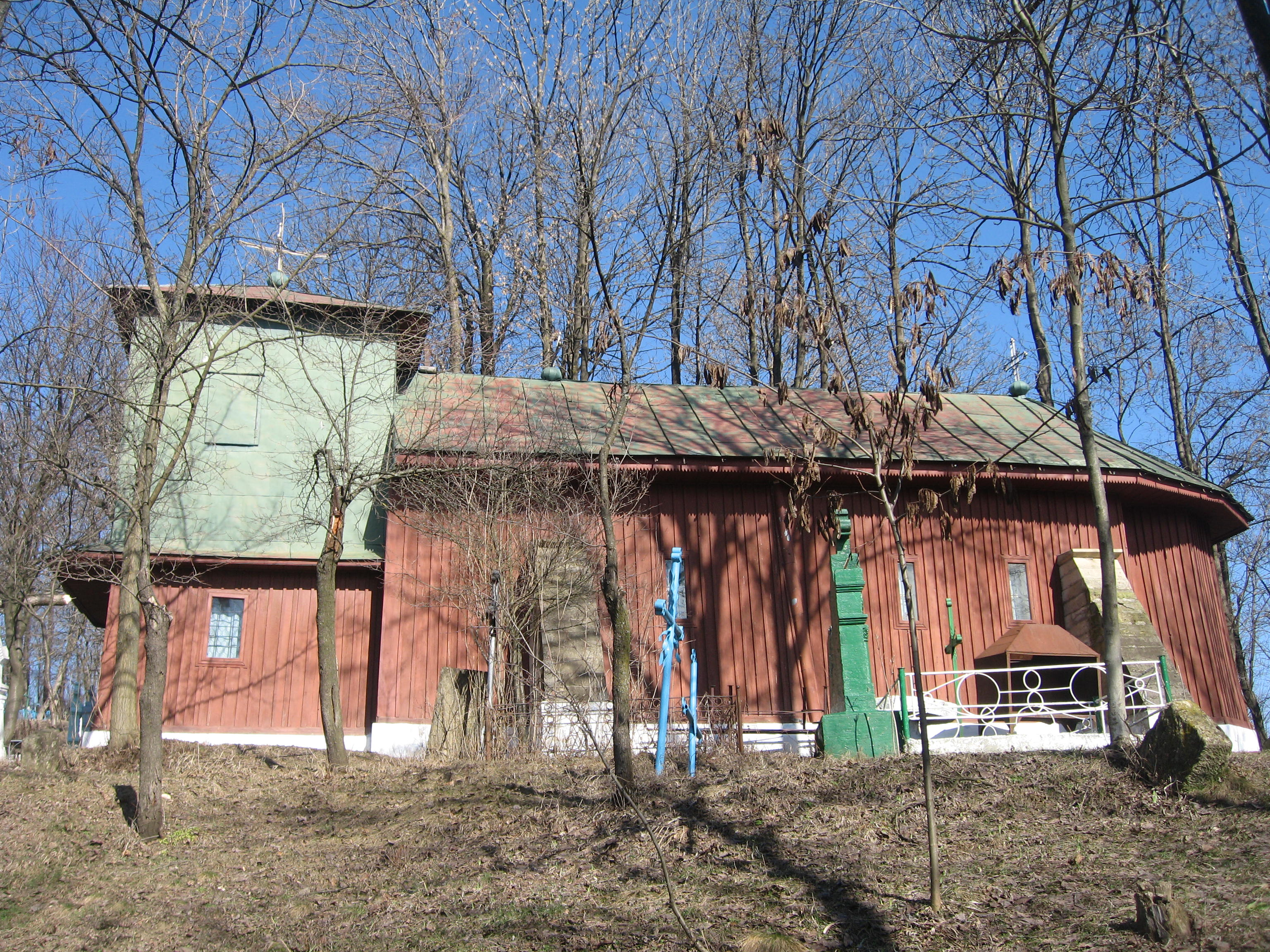 Biserica de lemn din Scheia